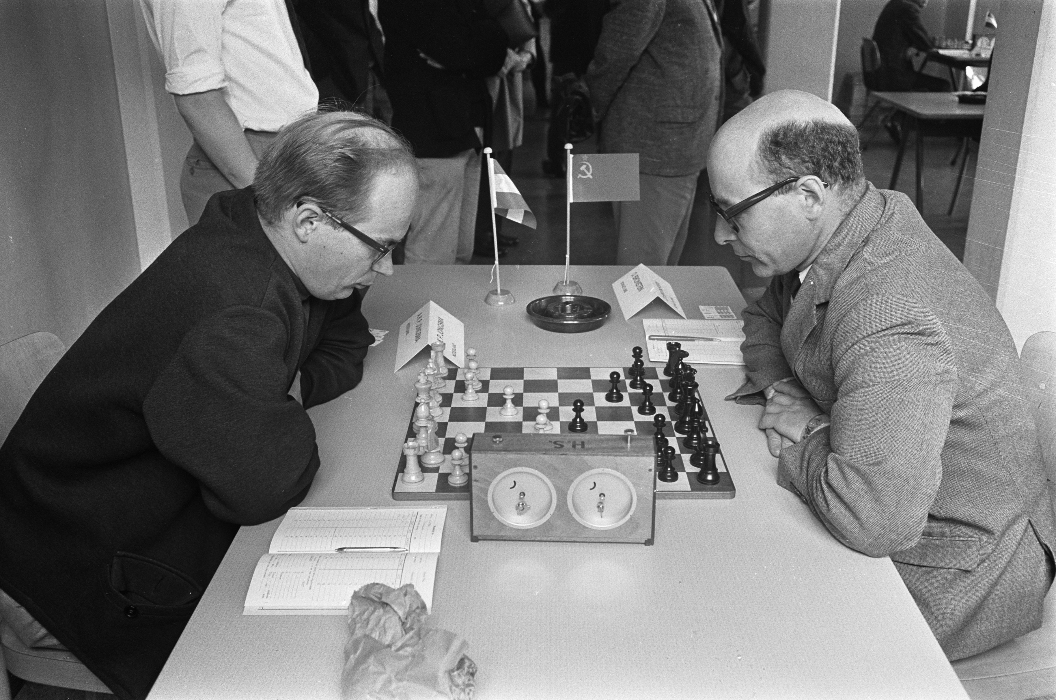 IBM-schaaktoernooi van start. A. K. P. (Lex) Jongsma (links) in zijn partij tegen D. Bronstein (rechts). Datum 16 juli 1968